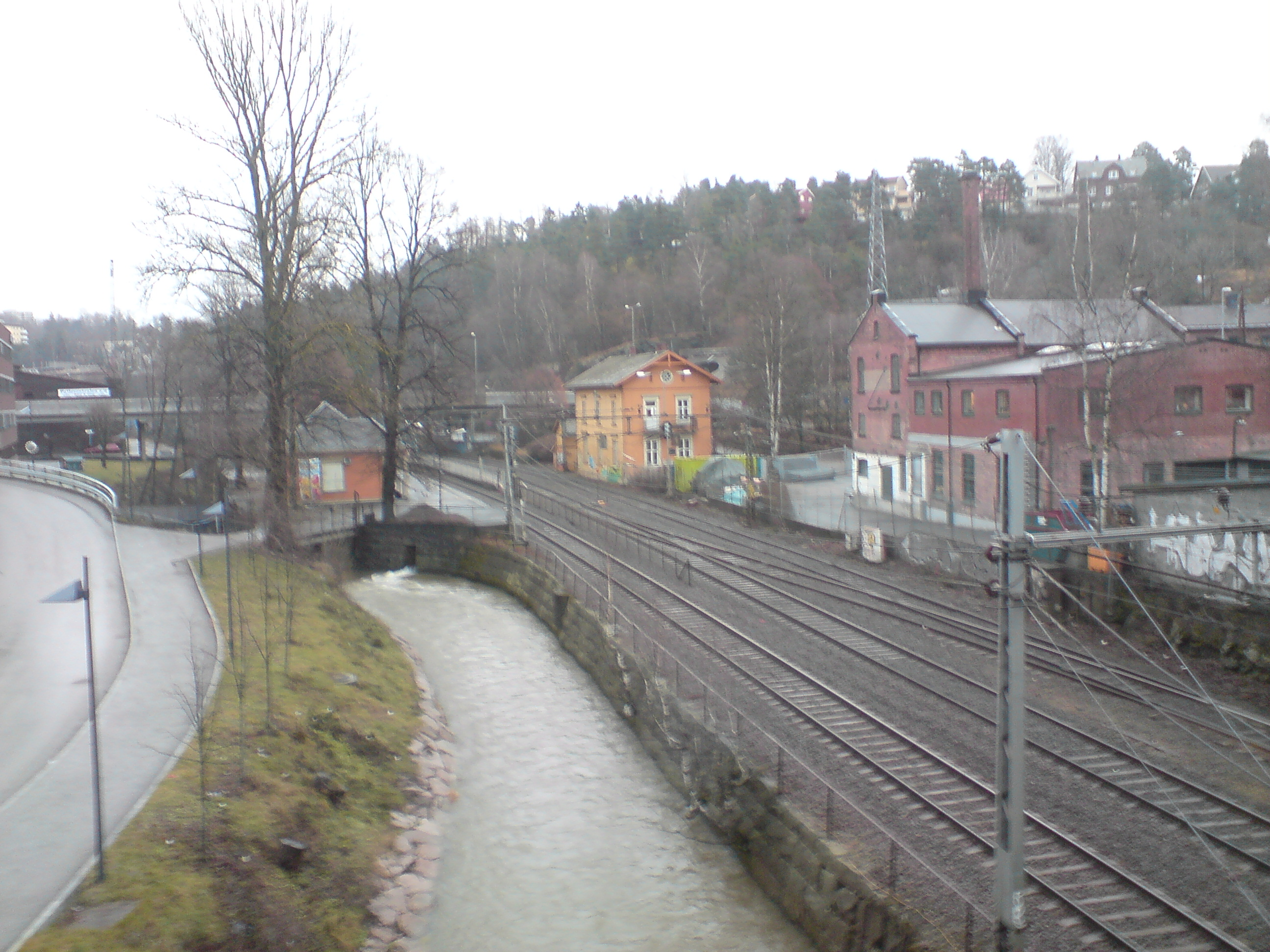 Bryn stationarea, with the river Alna